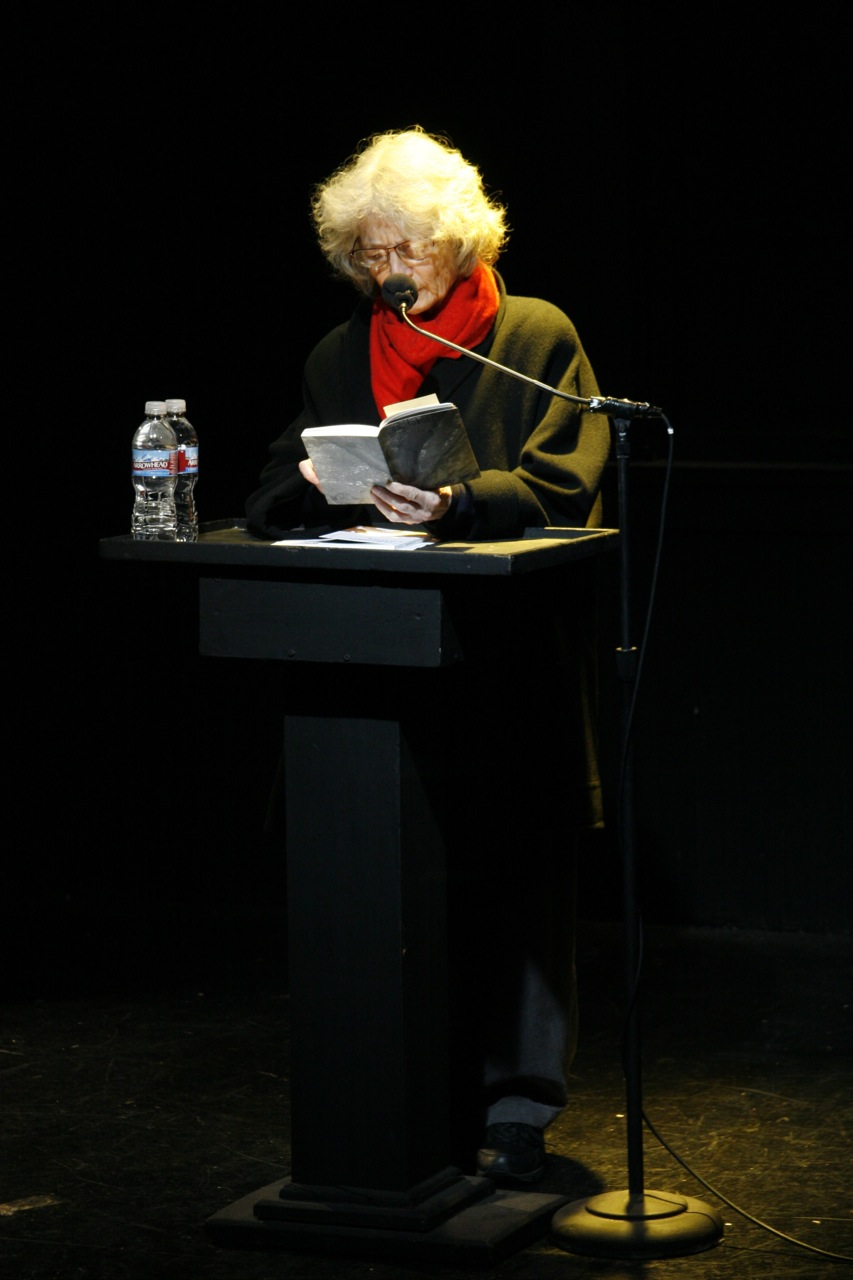 Simone Forti, a Los Angeles based writer, choreographer and dancer, speaking at Beyond Baroque Literary Arts Center, Los Angeles.